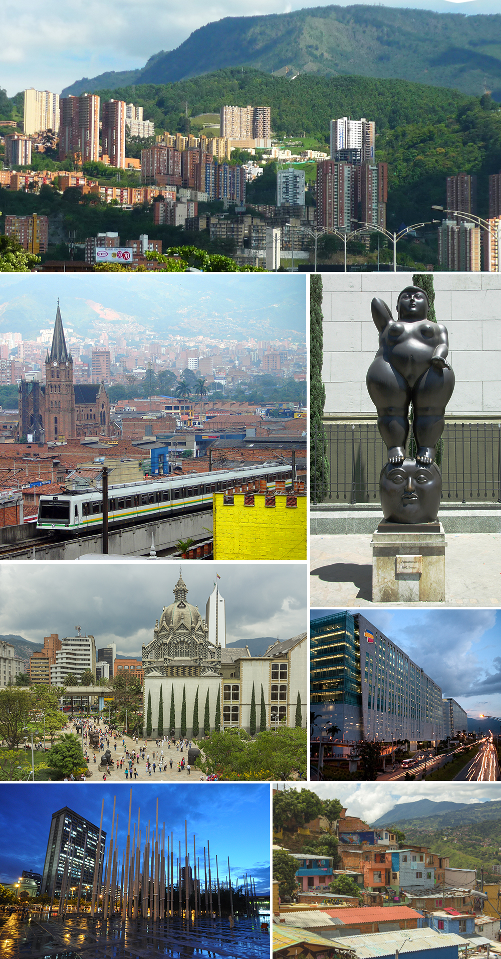 Montage of Medellín, Colombia